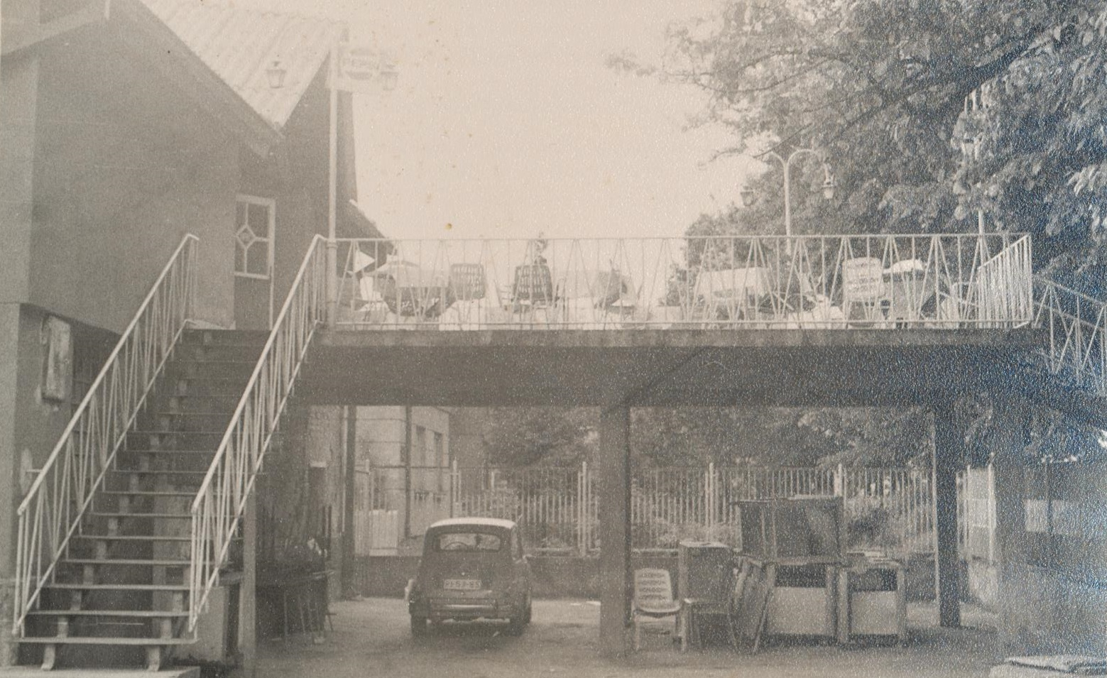 Old pub "Kej" in Pirot, 1980